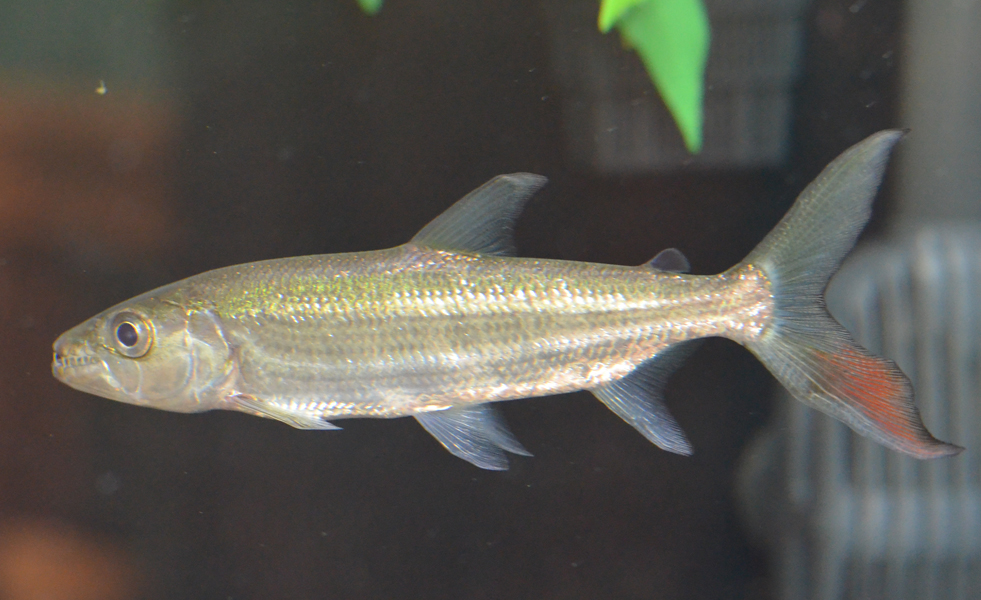 Young, six inch Goliath African tiger fish.